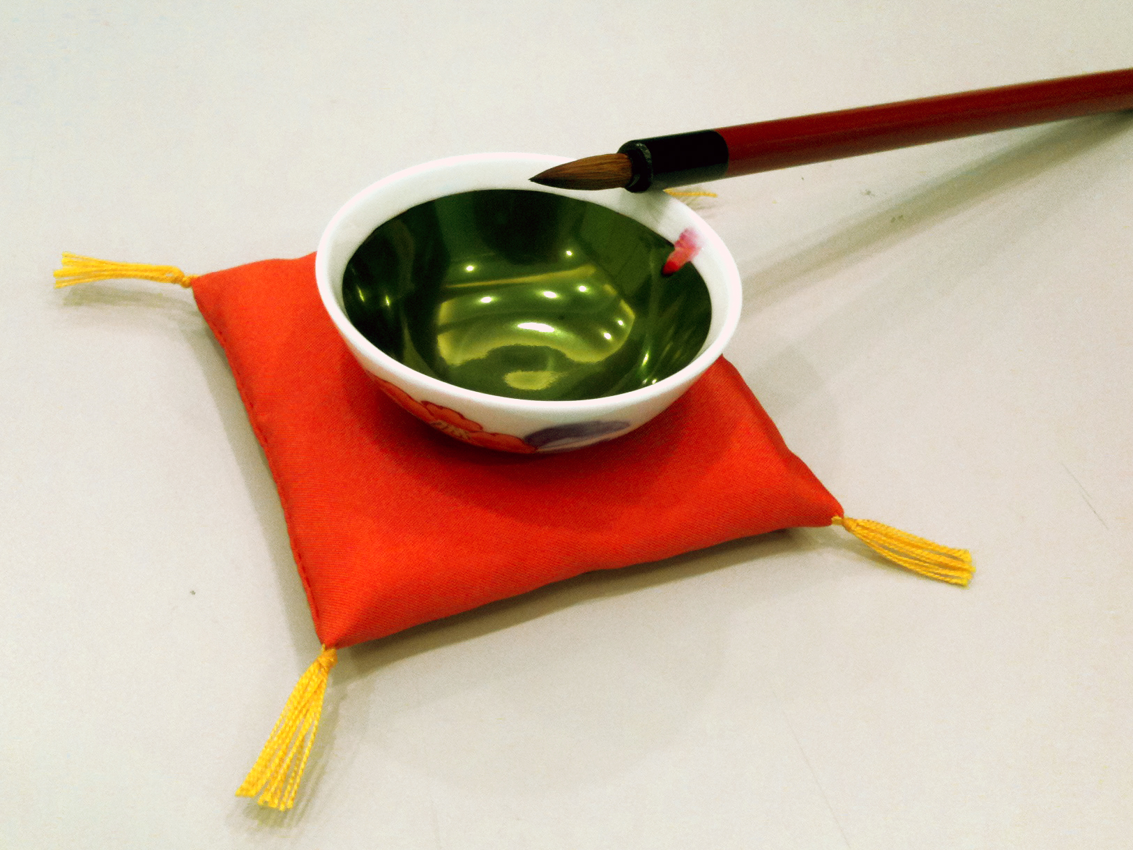 Komachi-beni,Japanese traditional lip color.